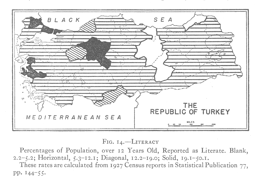 Published in 1935, "The Turkey of Ataturk" by Donald Everett Webster. Map showing the population structure in 1927. The source is copyright-left in USA. The data used in the images are census data, which is in the Public Domain.